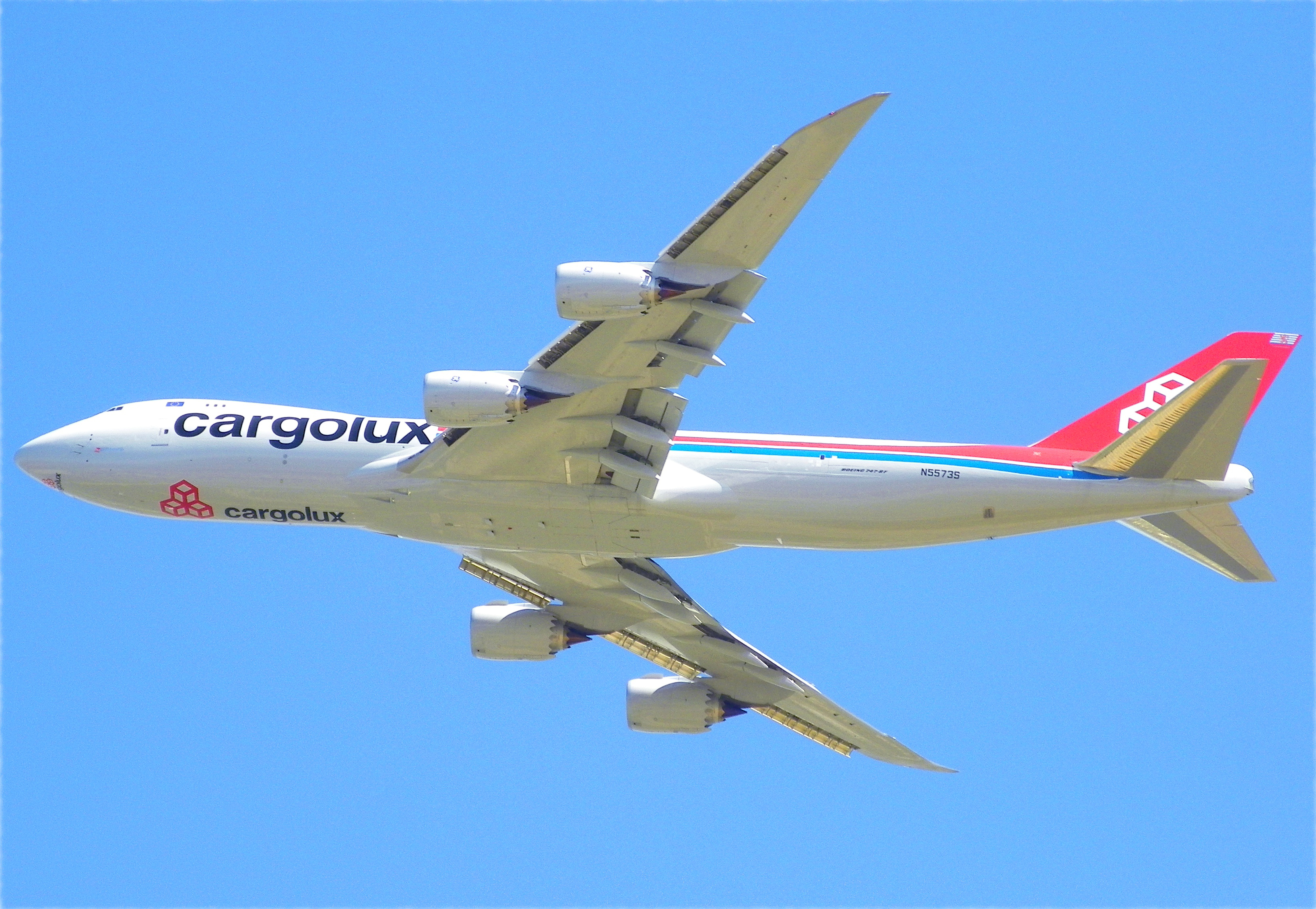 A new Boeing 747-8 in Cargolux colors doing test flights at Fresno Yosemite international Airport.